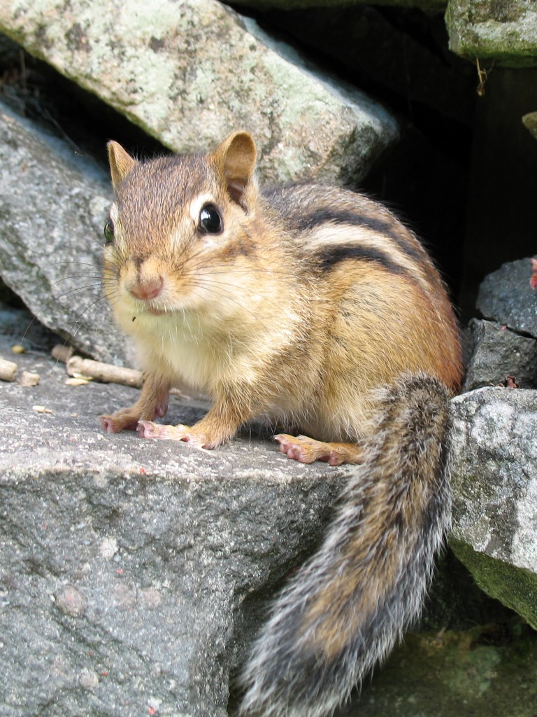 Tamias striatus (Eastern chipmunk) (Tamia rayé)